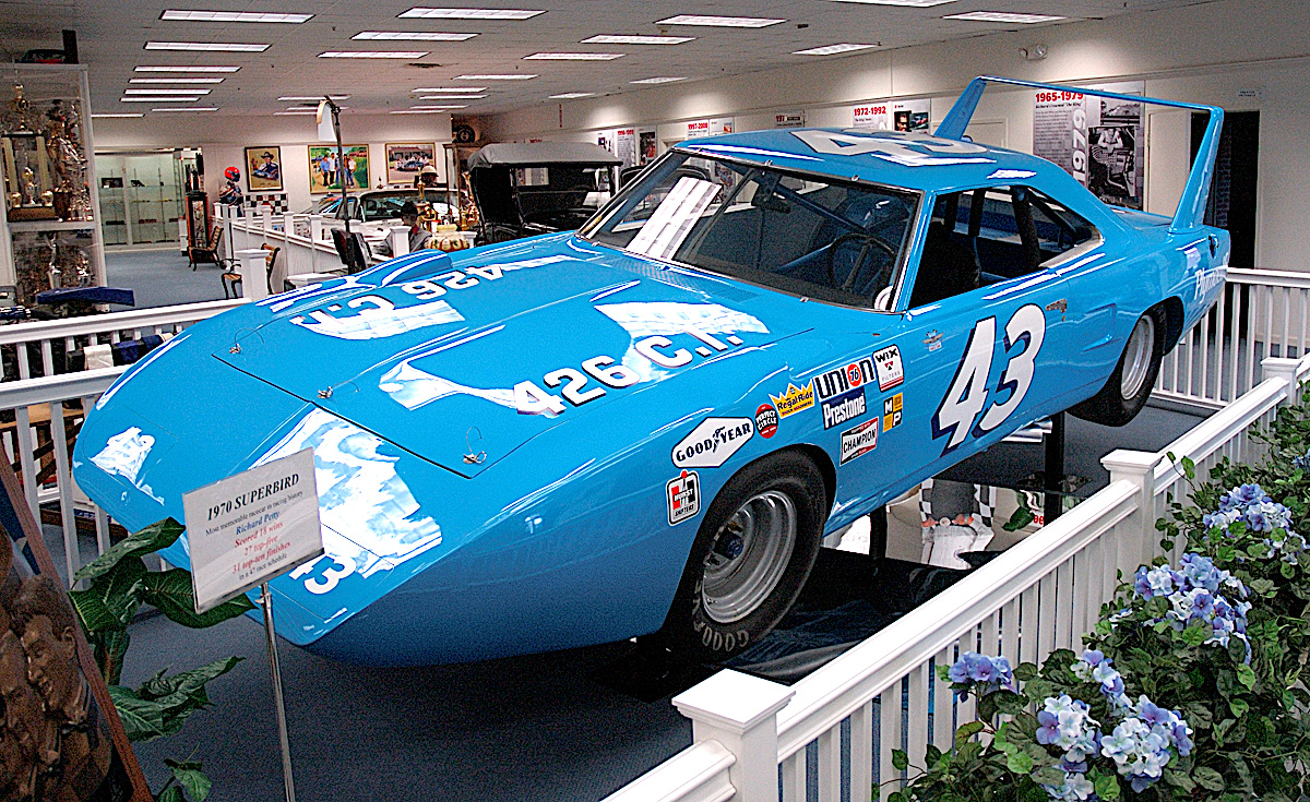 Richard Petty's car, taken at the Richard Petty museum